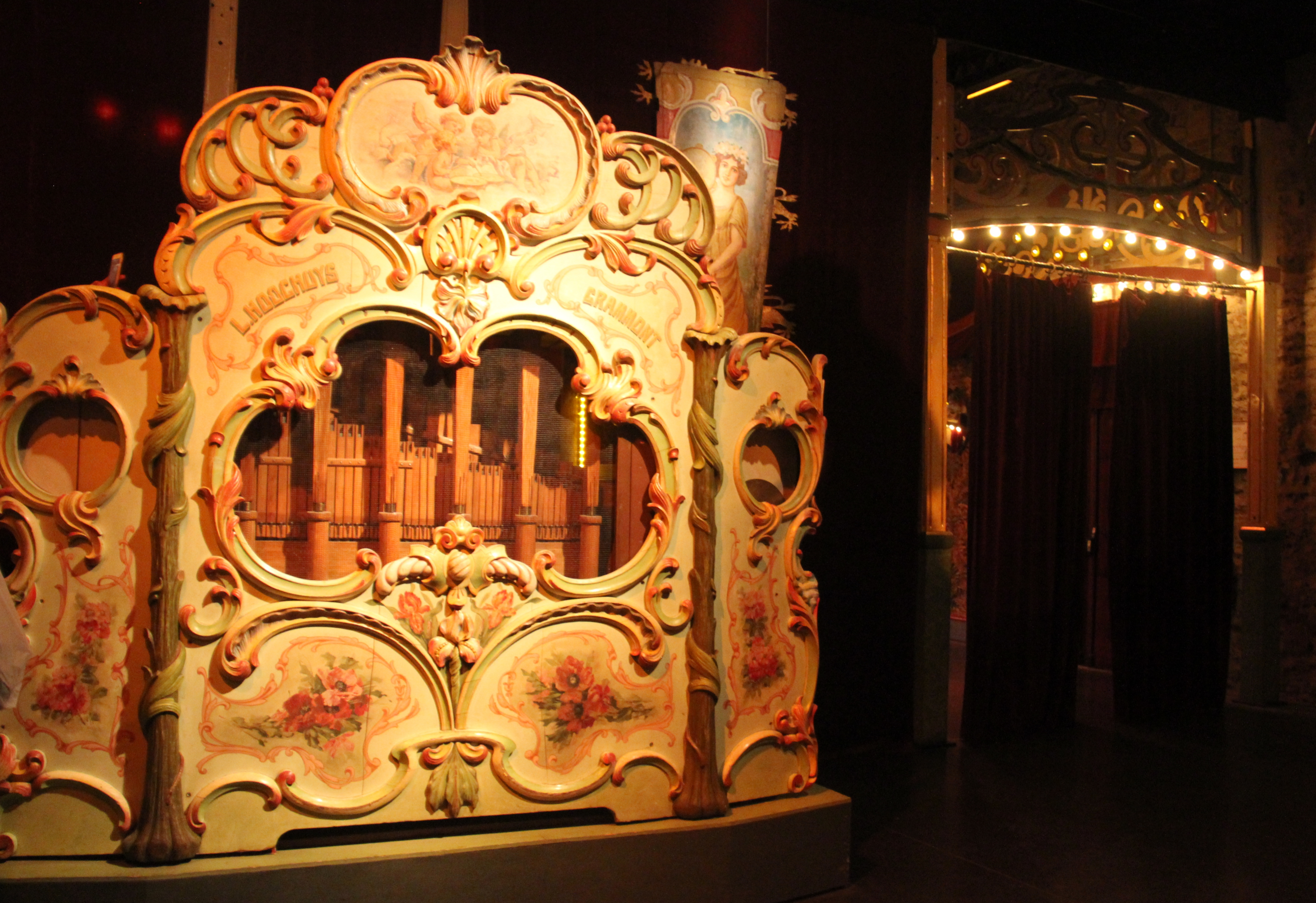 Electric organ. Flickr Tags: Musee des Arts Forains Paris France Europe museum fairground museum circus museum Pavillons de Bercy Bercy. from Flickr album "Europe 2014/2015" by Laika ac from UK. "UK, France, Czech Republic, Italy."